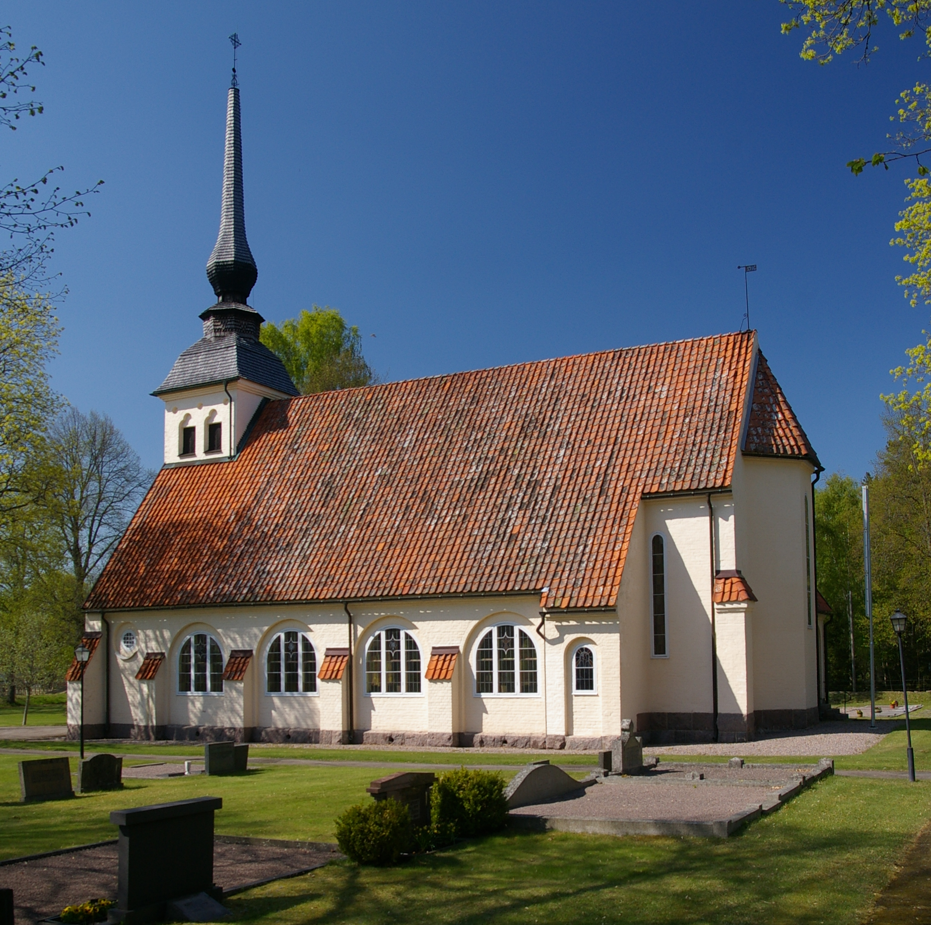 Baltak church, Tidaholm municipality, Sweden